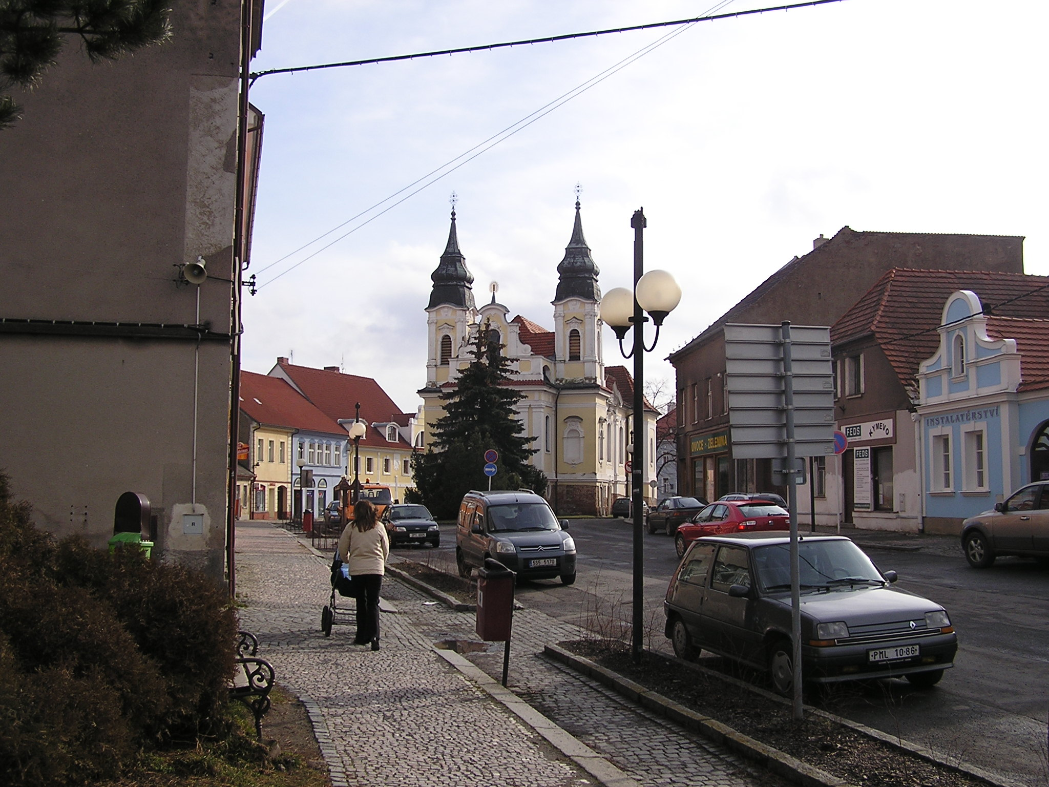 Rožmitál pod Třemšínem, town square